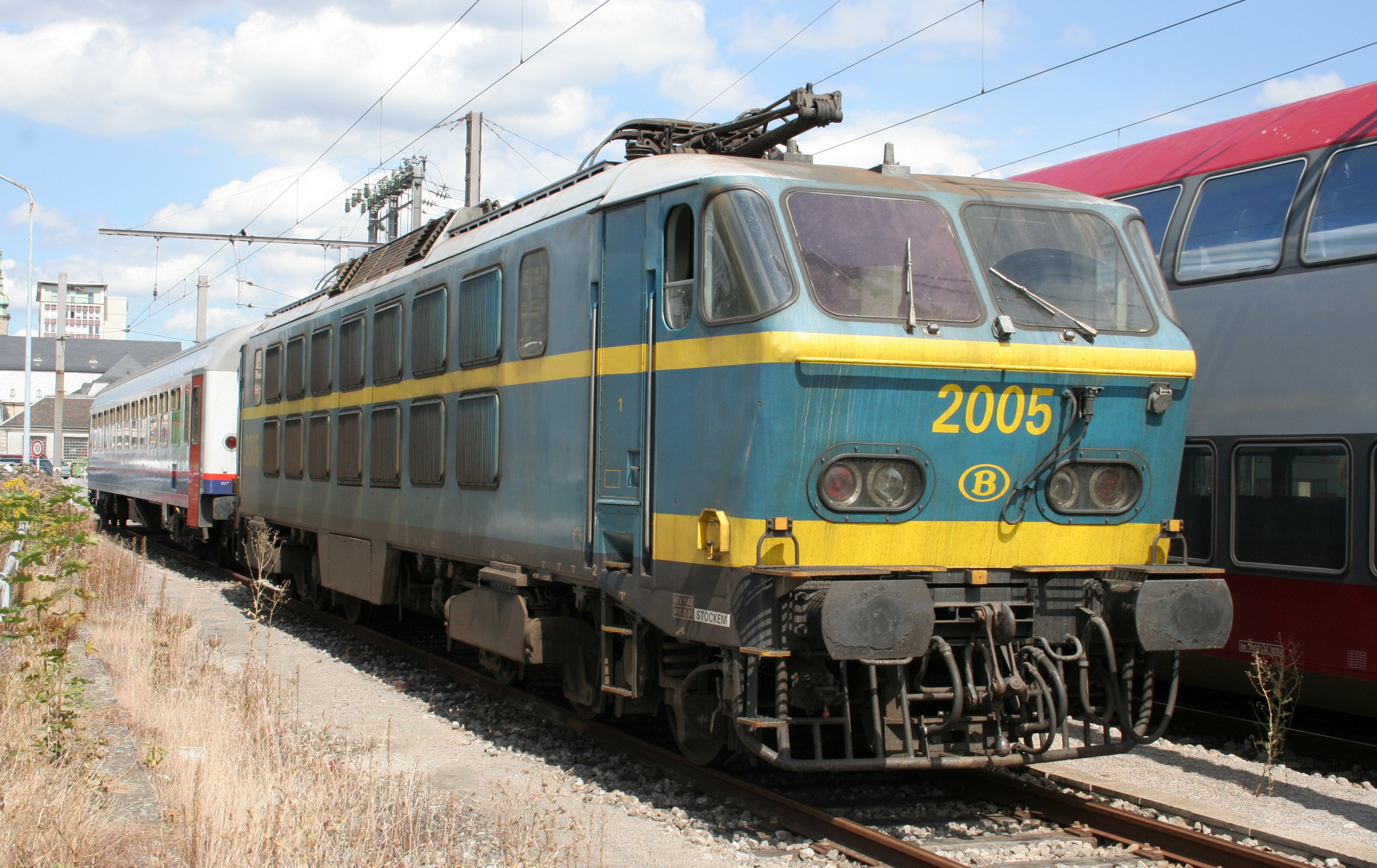 NMBS HLE20 in Luxembourg.